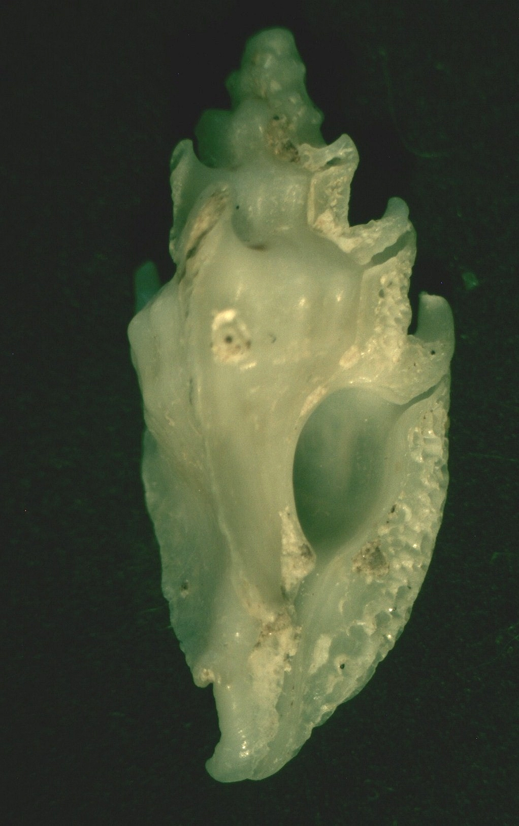 Prototyphis angasi (H. Crosse, 1863), a murex snail from the family Muricidae; South Australia